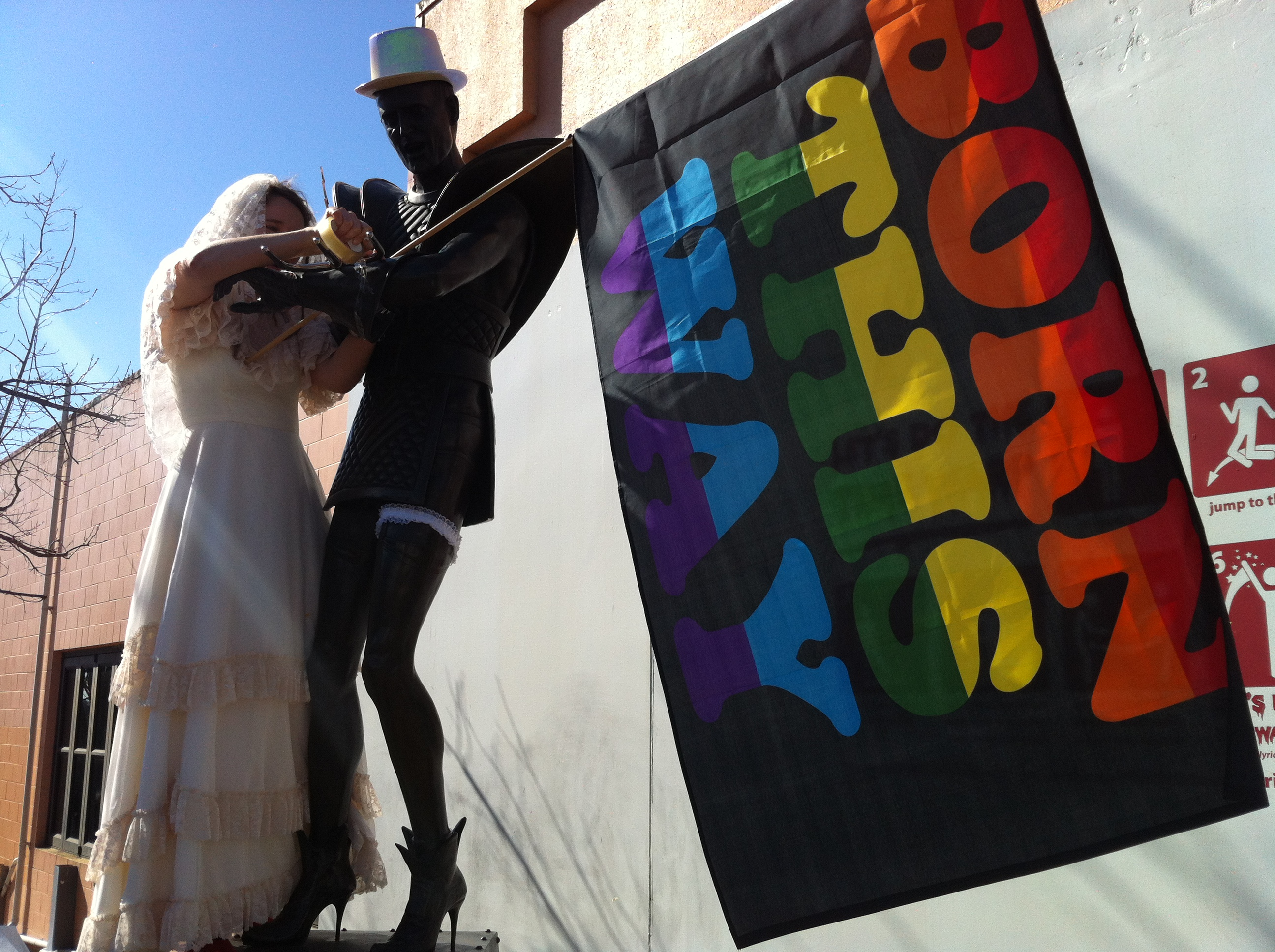 The Riff Raff Statue is dressed up during a same-sex marriage rally in Hamilton, New Zealand.